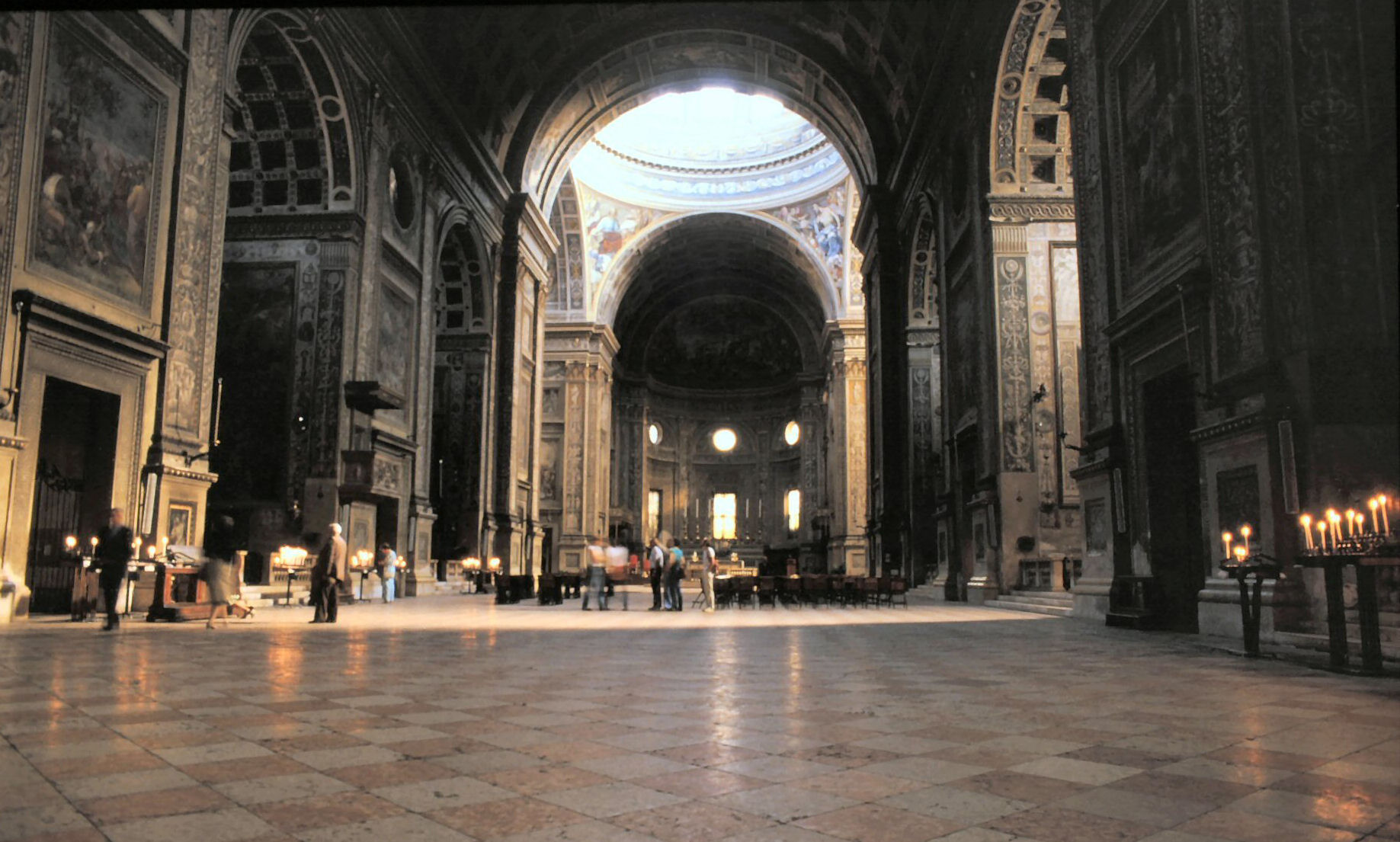 Sant'Andrea, Mantova . Iterior. Architect Leon Battista Alberti